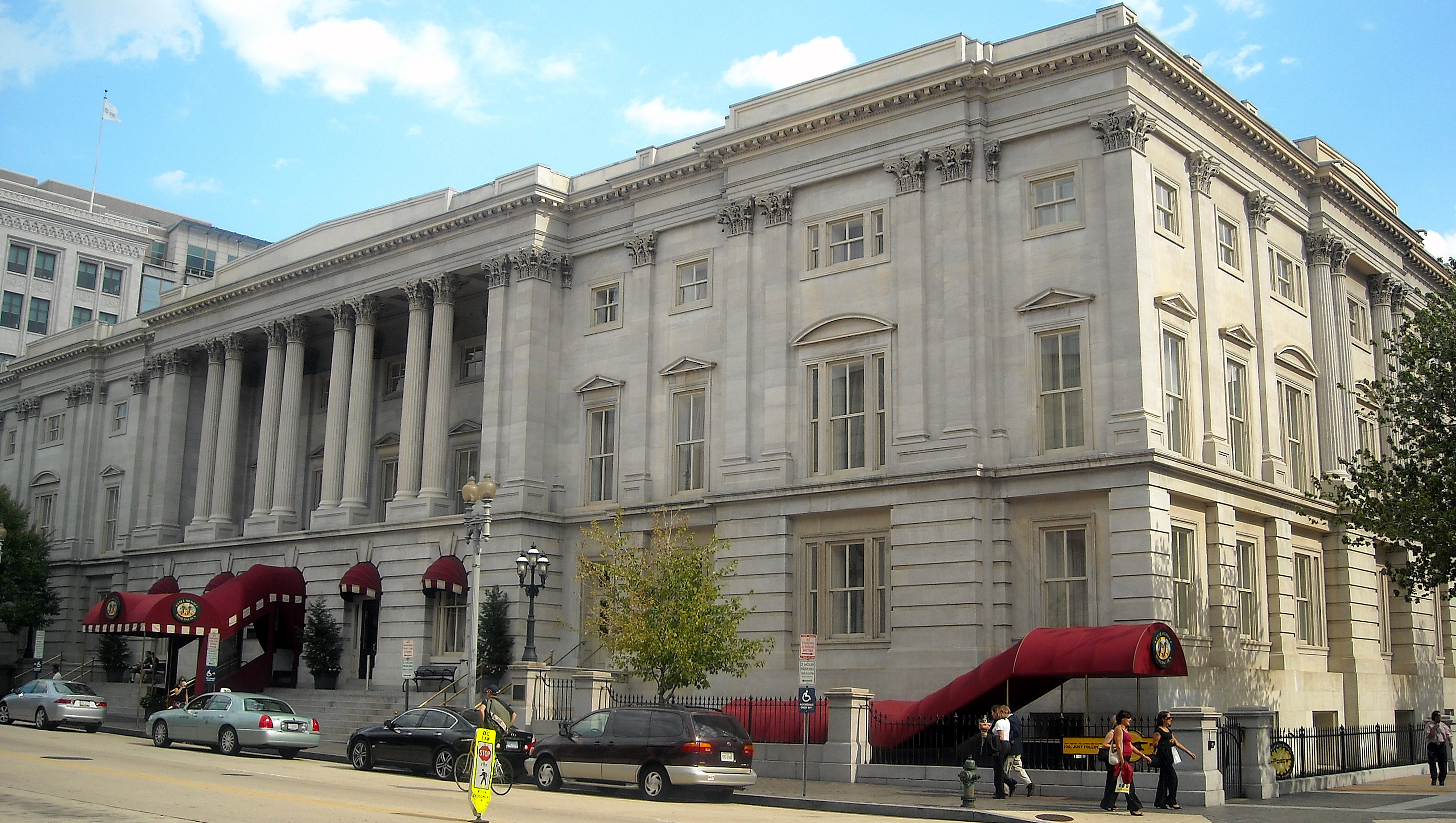 The Hotel Monaco at 700 F Street, NW in the Penn Quarter neighborhood of Washington, D.C. The building is also known as the Old Post Office Building and is a National Historic Landmark.